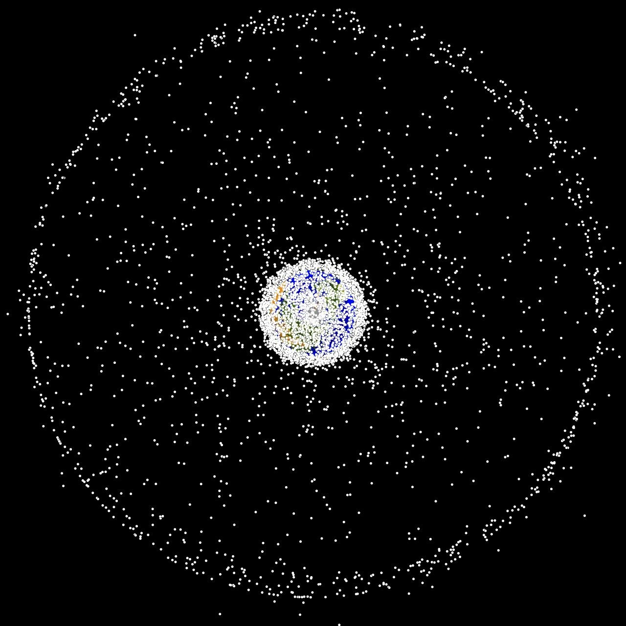 Debris plot by NASA The following graphics are computer generated images of objects in Earth orbit that are currently being tracked. Approximately 95% of the objects in this illustration are orbital debris, i.e., not functional satellites. The dots represent the current location of each item. The orbital debris dots are scaled according to the image size of the graphic to optimize their visibility and are not scaled to Earth. These images provide a good visualization of where the greatest orbital debris populations exist. Below are the graphics generated from different observation points. The GEO Polar images are generated from a vantage point above the north pole, showing the concentrations of objects in LEO and in the geosynchronous region.